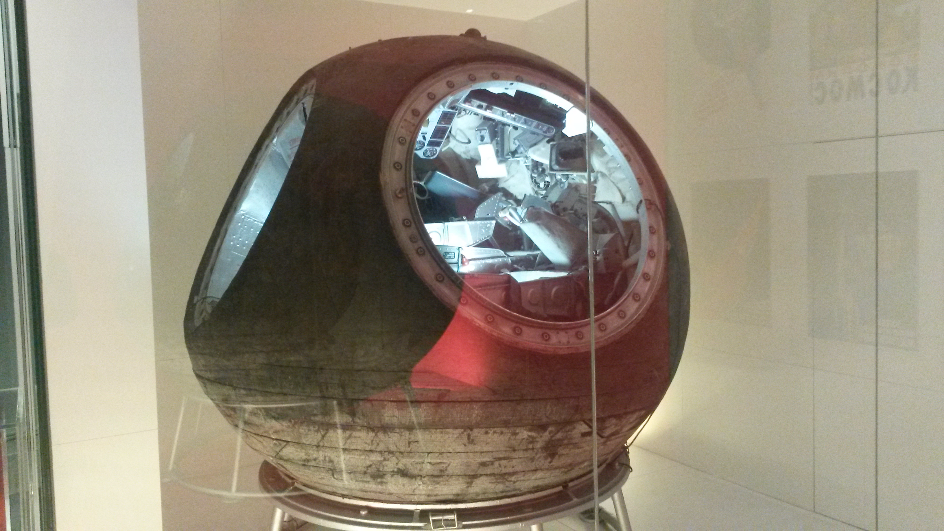 Voskhod 1 capsule (flown 1964). Photographed at the Science Museum, London, March 2016.